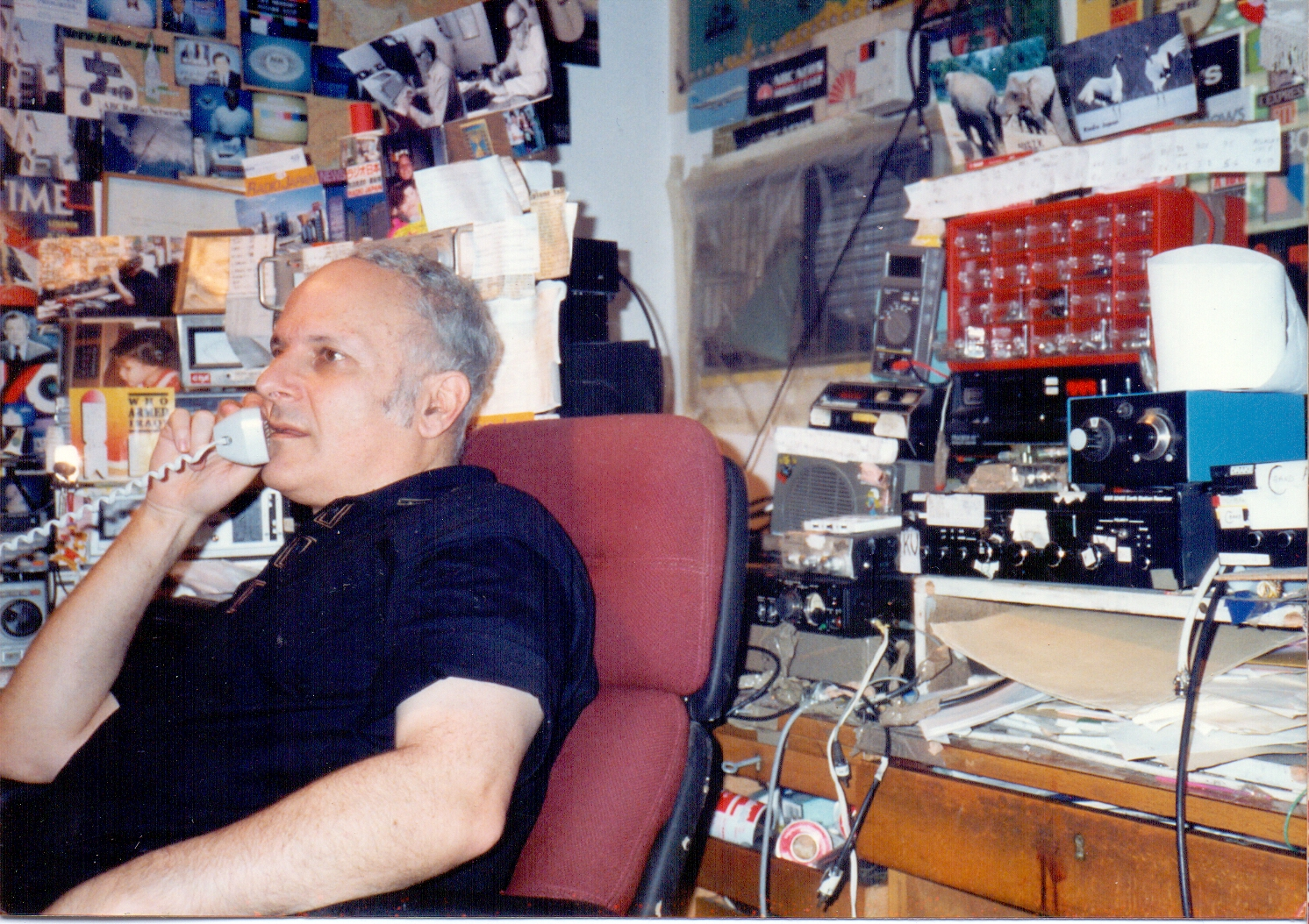 Michael Gurdus, Israeli Journalist and Radio reporter